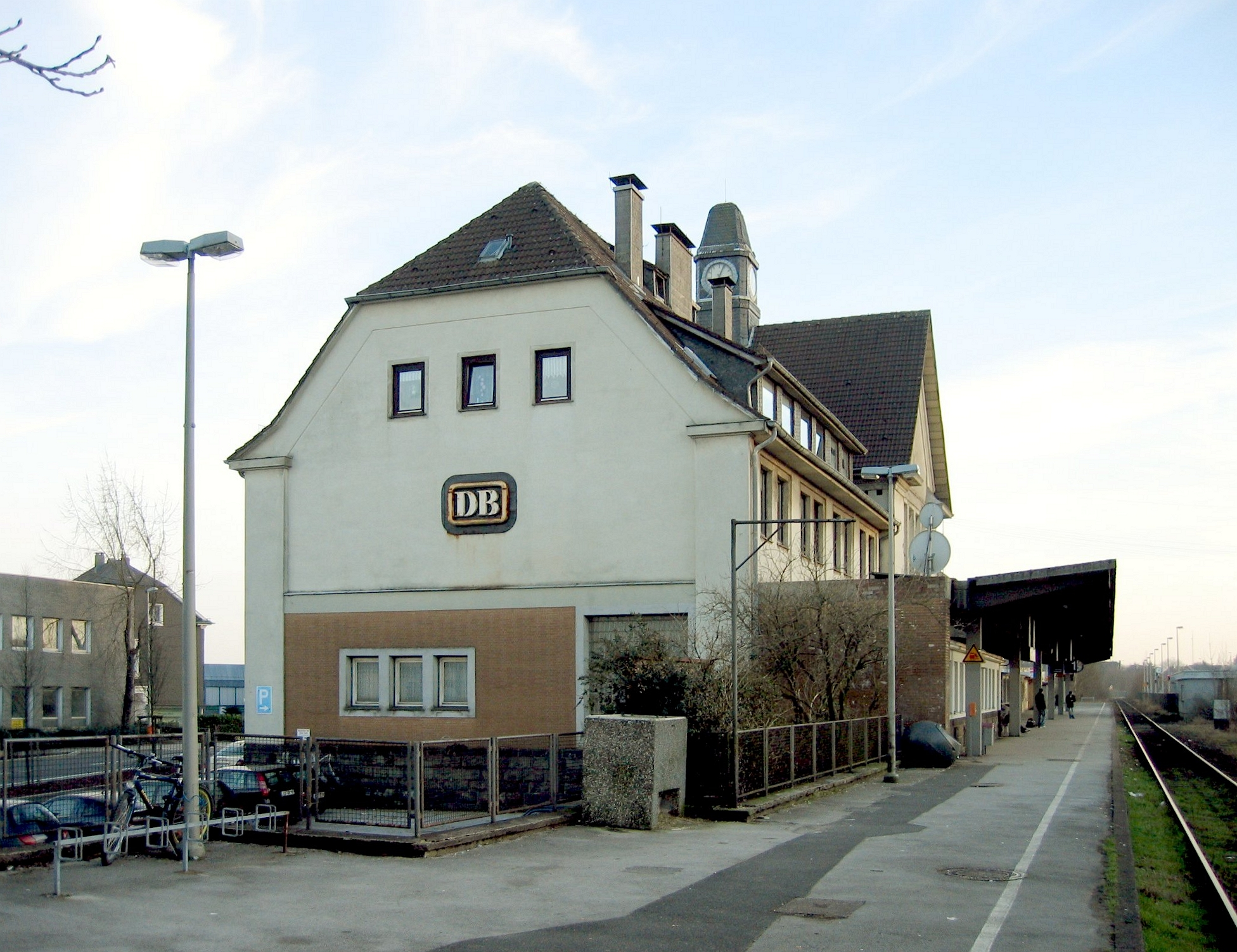 Lennep Station, Remscheid, Germany